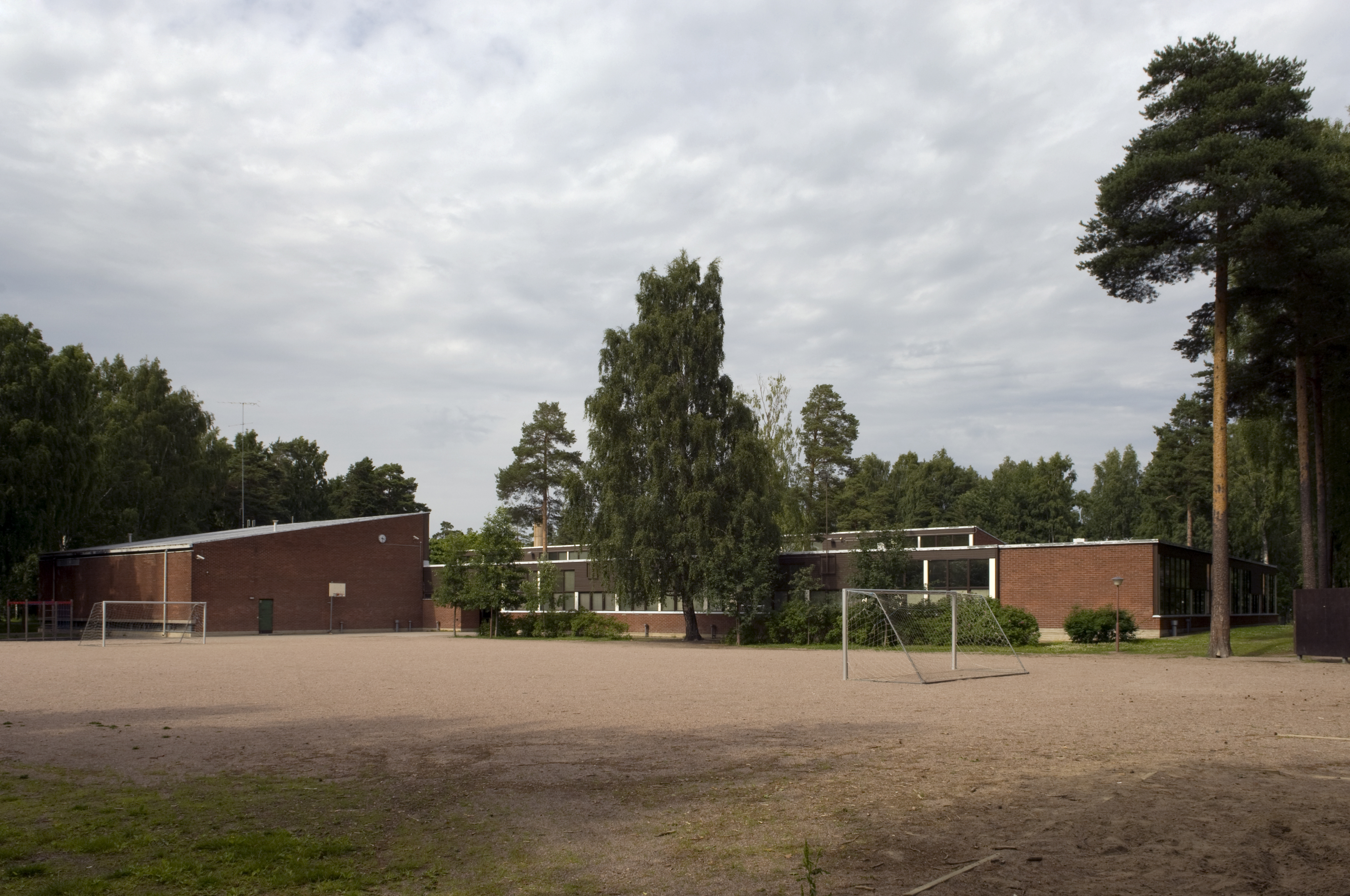 The lower comprehensive school of Munkkivuori in Helsinki, Finland.